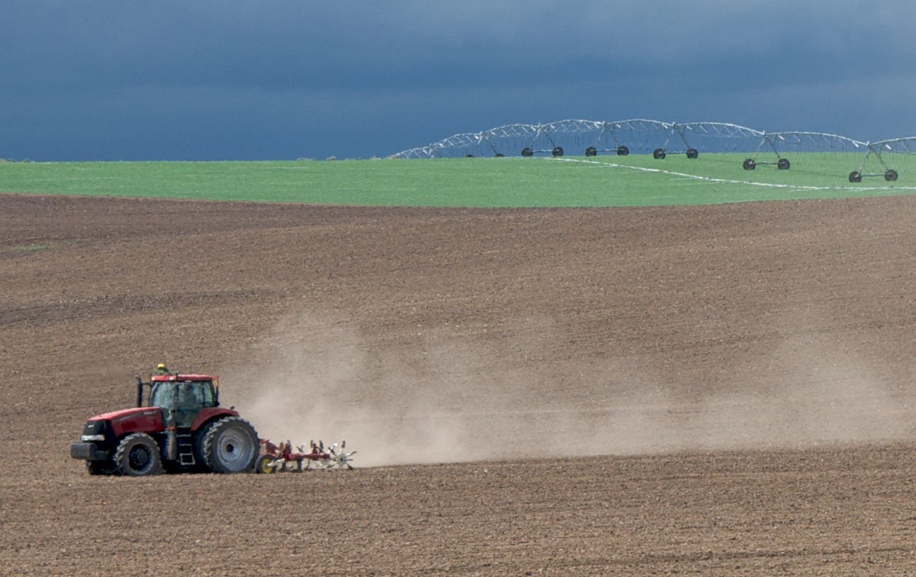 Twin-tired Case tractor working on a field, irrigation line at the horizon, Silver Creek, Idaho, USA